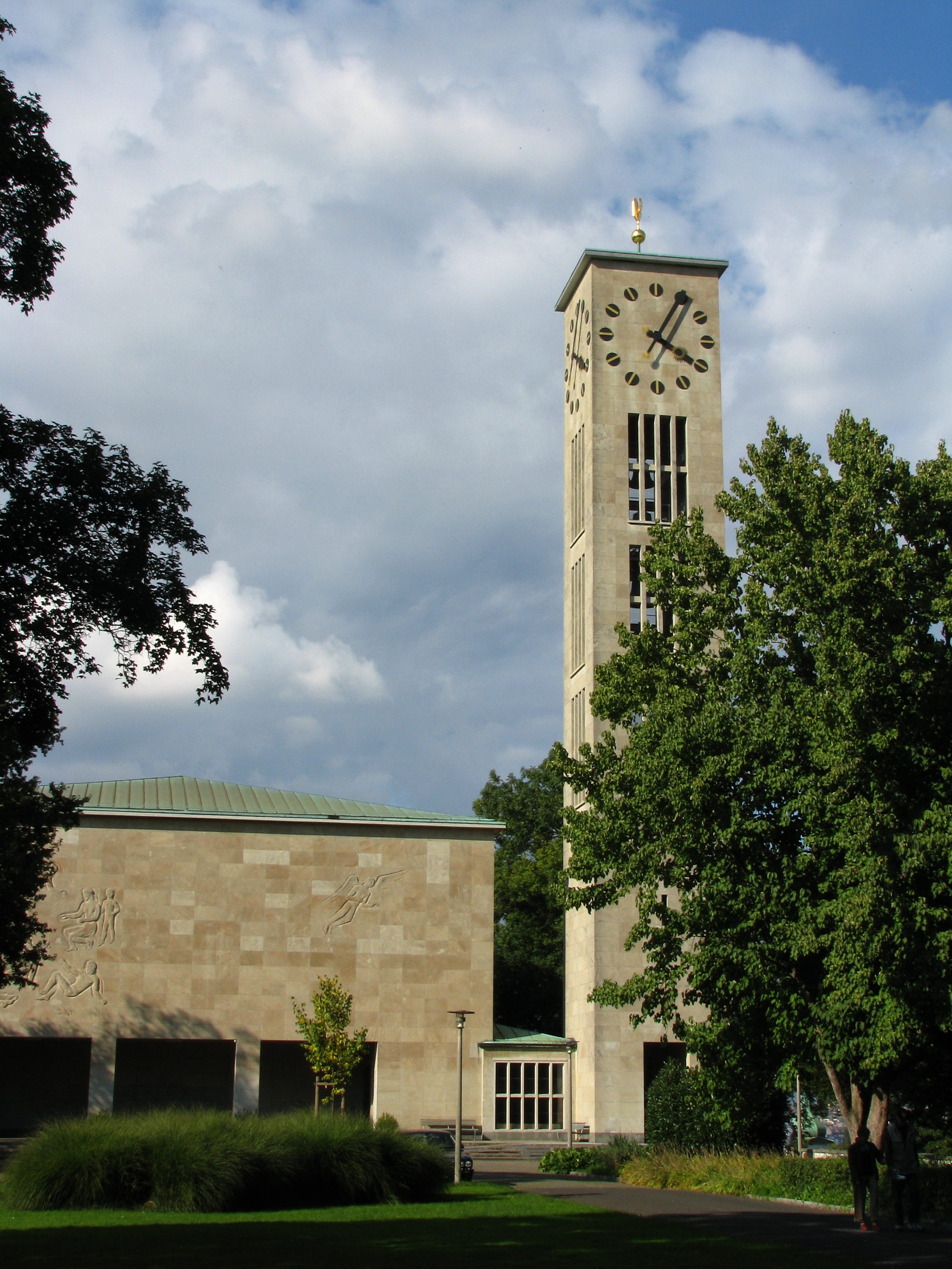 Zürich-Wollishofen : Neue Kirche (new church), seen from the southeast.